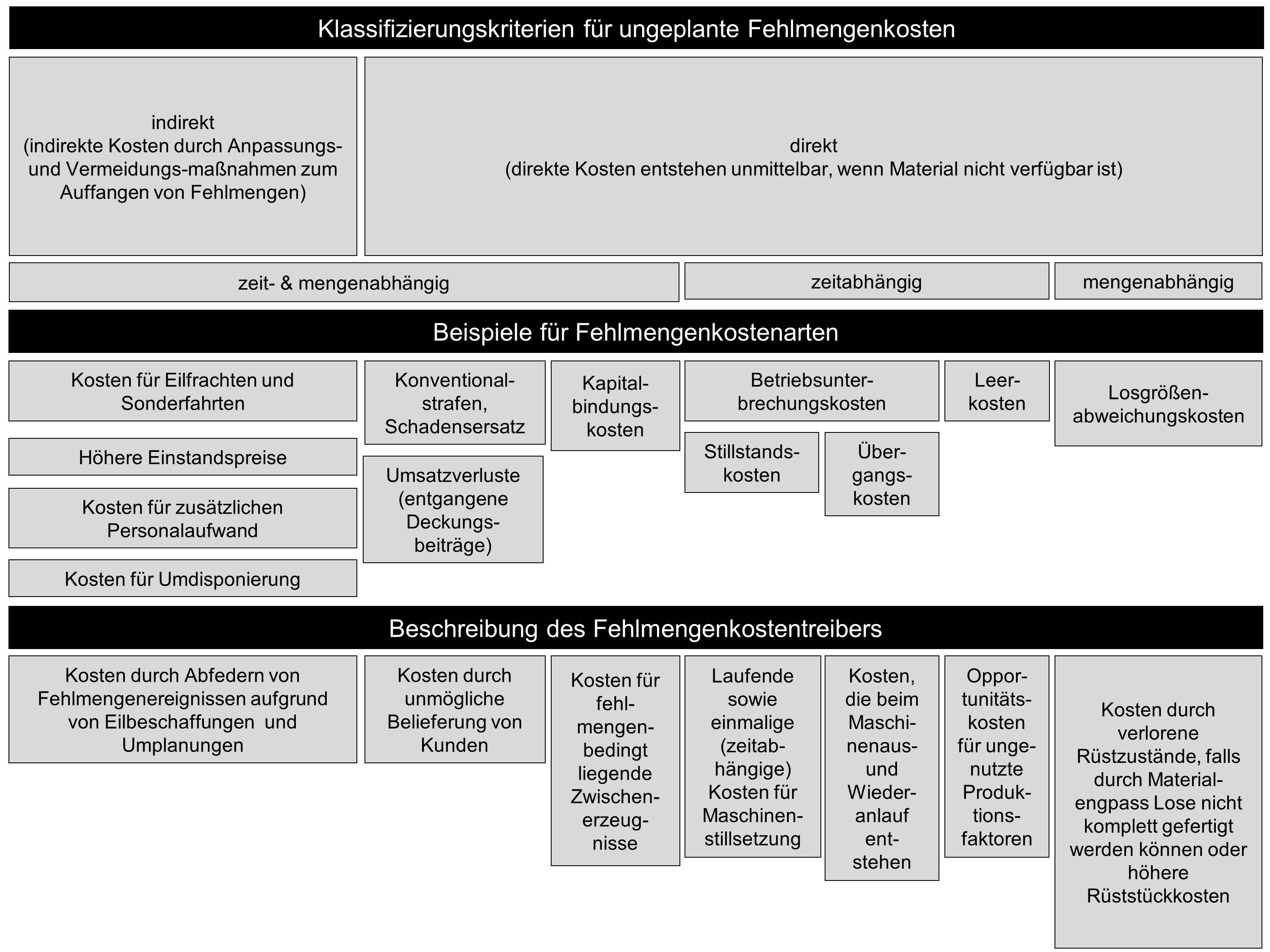 scheme, classification of out-of-stock cost, shortfalls, logistics, controlling, material planning, Wirtschaft, cost account, cost accounting